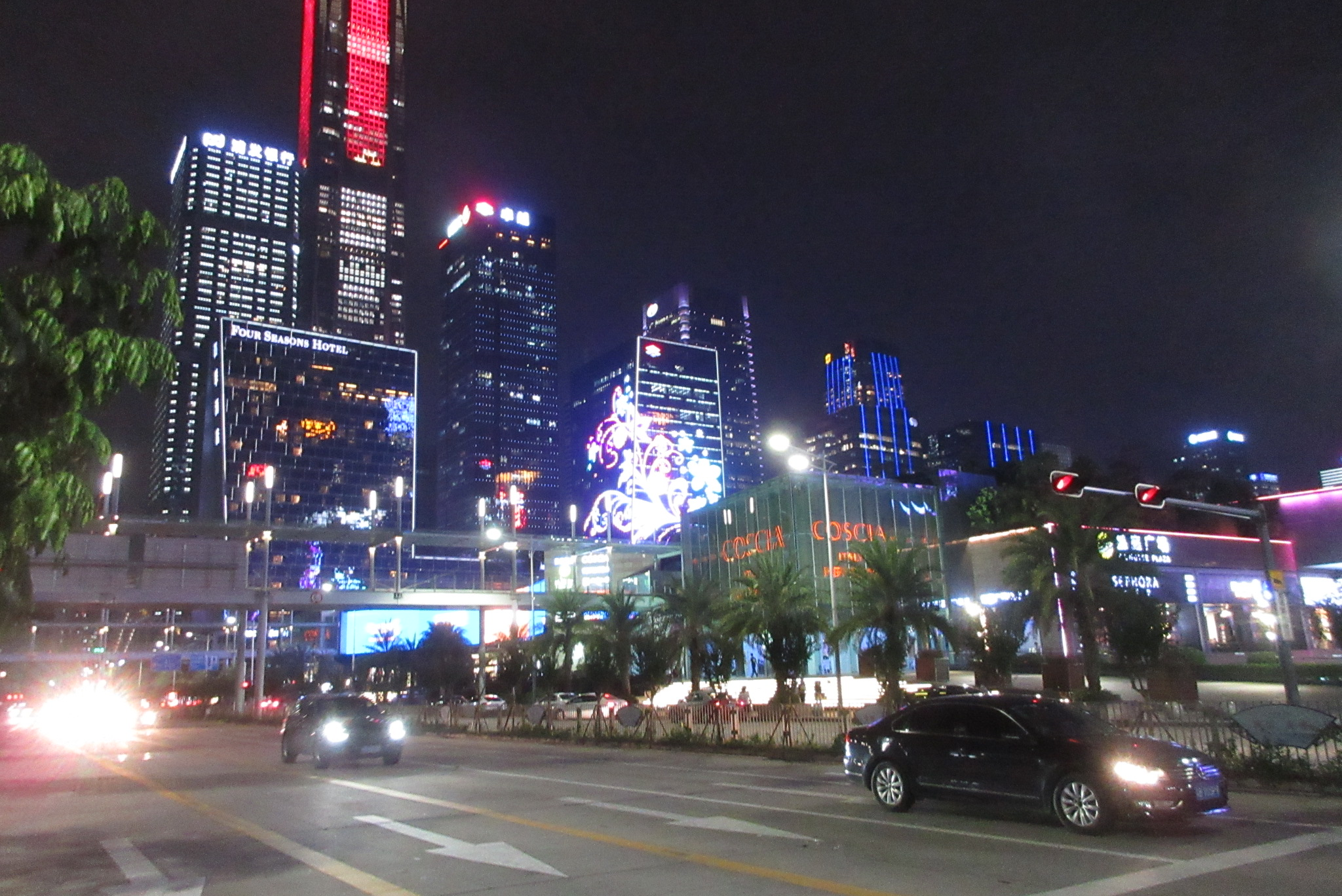 SZ 深圳 Shenzhen 福田 Futian 金田路 Jintian Road night in October 2017